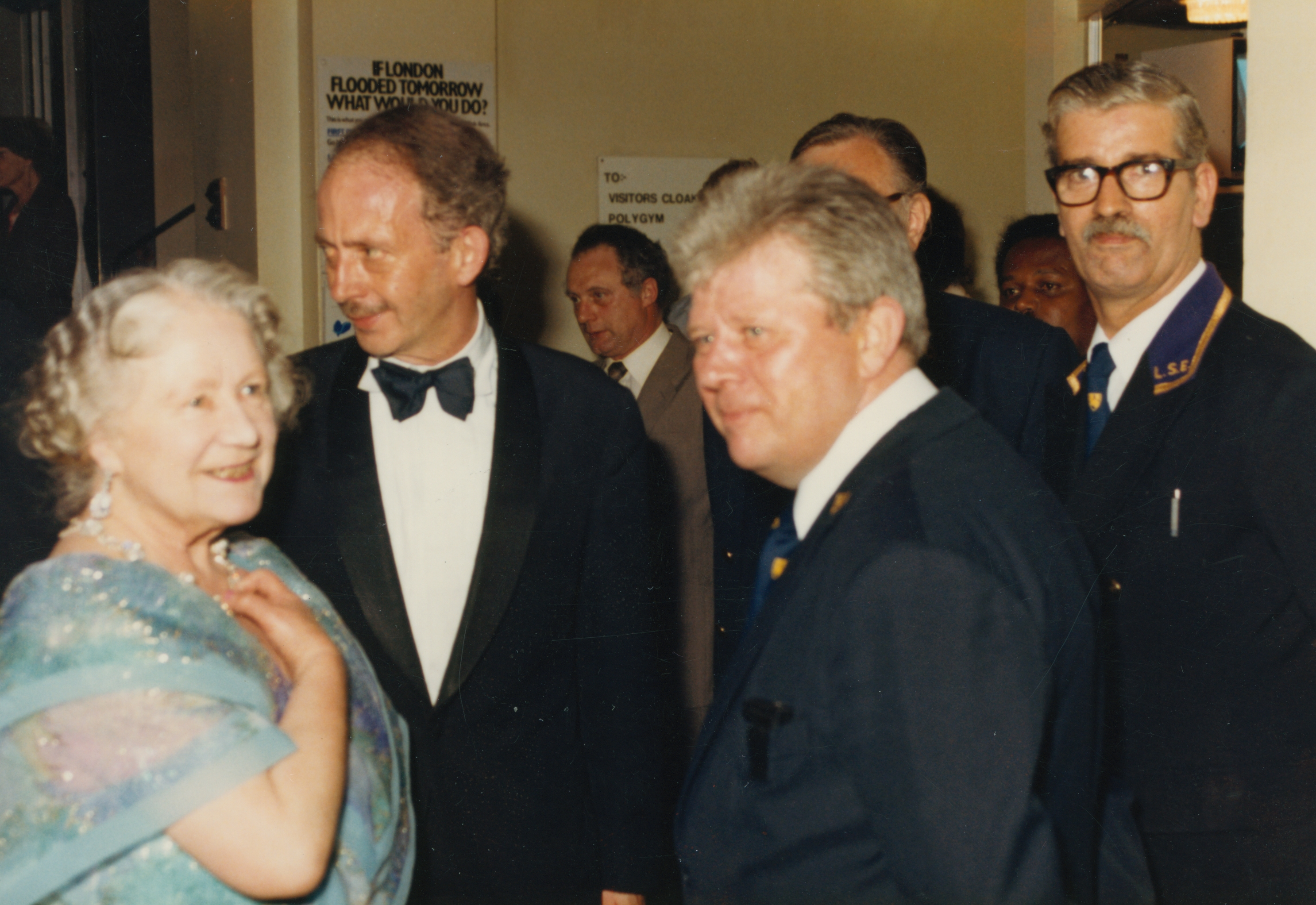 Left to right: Queen Mother, Professor Dahrendorf, (background M.J. Strode, House Manager), G. Churchill (Head Porter) and S. Allison (Porter) IMAGELIBRARY/419 Persistent URL